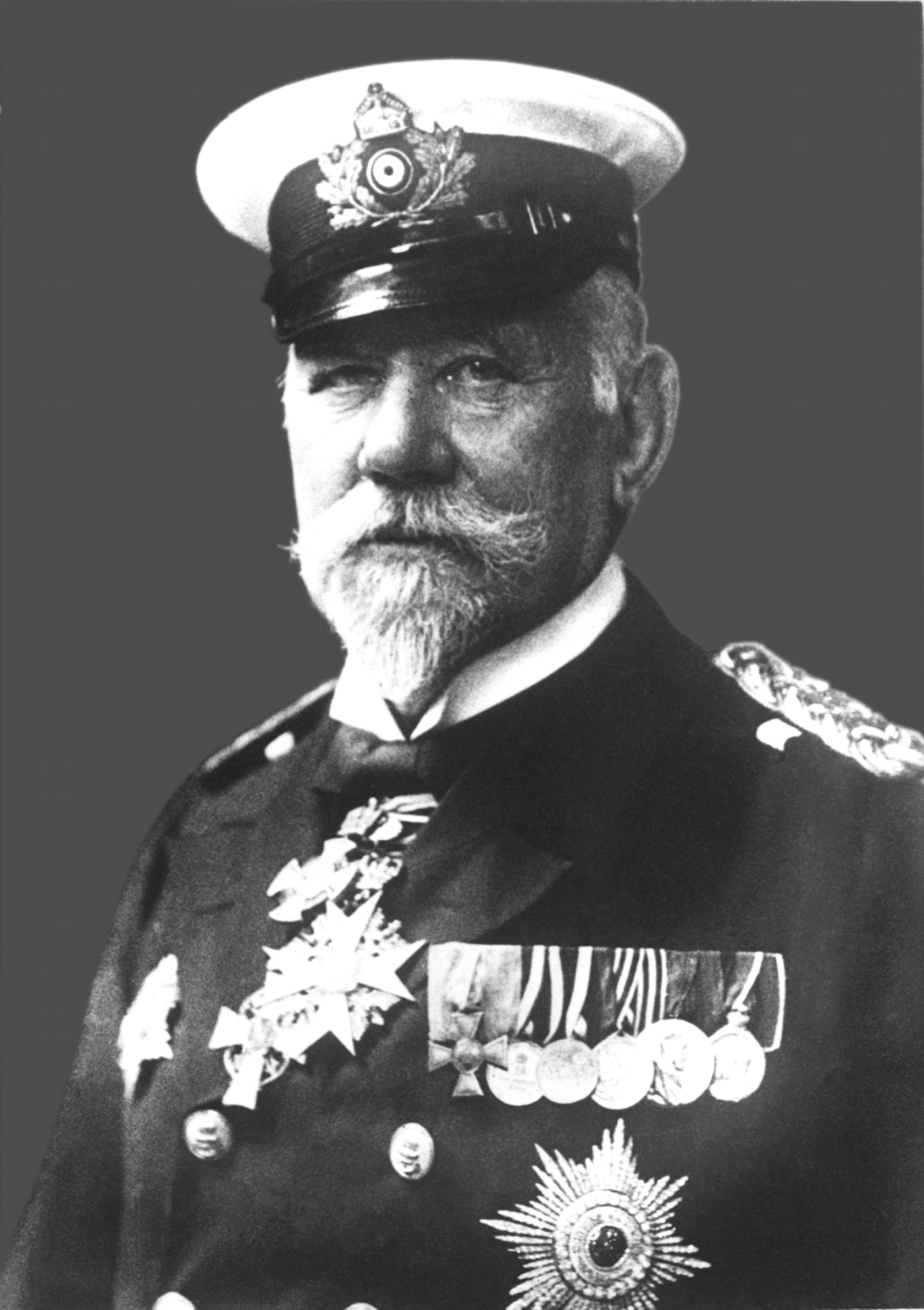 Hans von Koester (1844-1928), german "Great-Admiral"